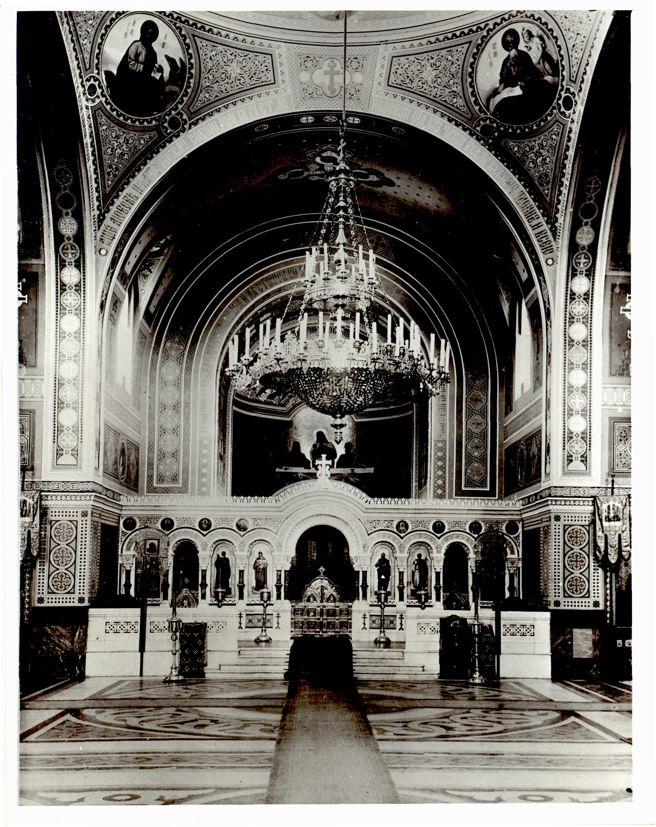 Chersonesos Taurica (Ukraine)